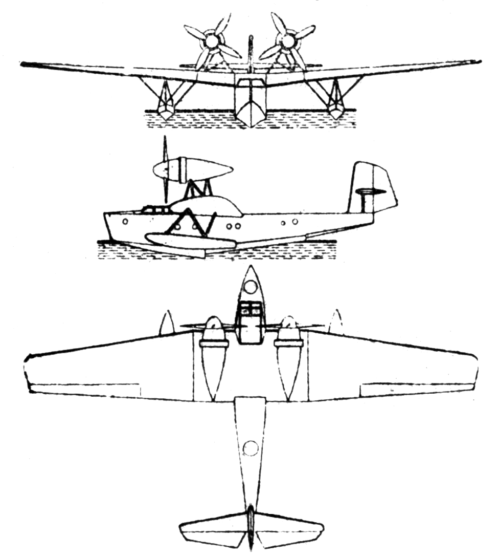 Rohrbach Rostra 3-view drawing from Le Document aéronautique January,1929